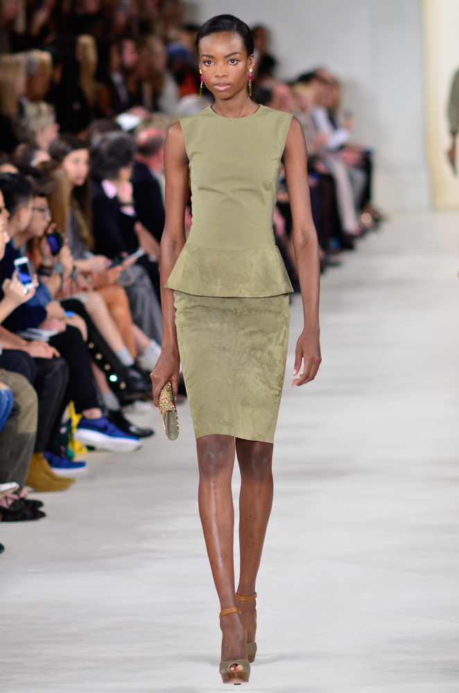 Maria Borges walking the Ralph Lauren Spring/Summer 2015 fashion show.